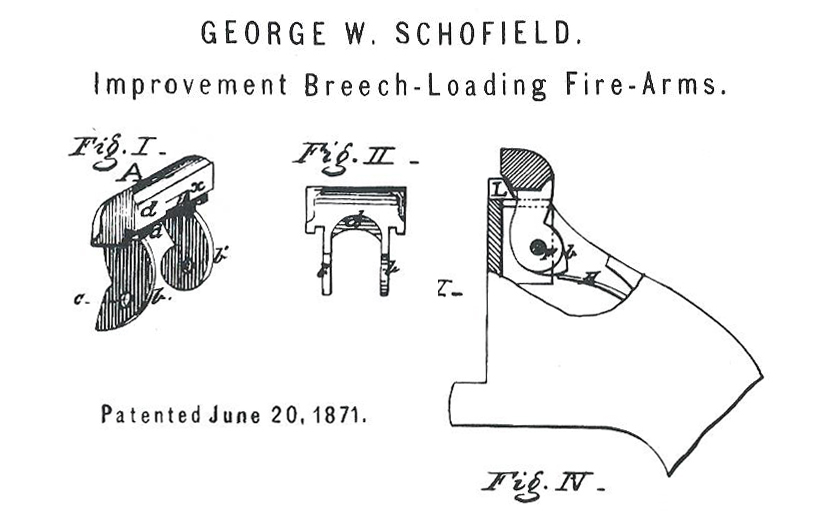 Schofield Pat